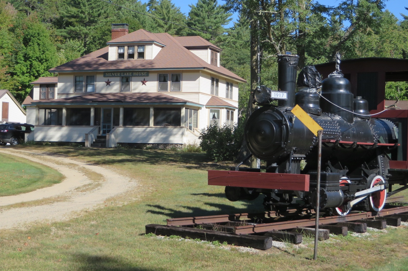 Silver Lake House and Silver Lake Railroad, center of village of Silver Lake, New Hampshire